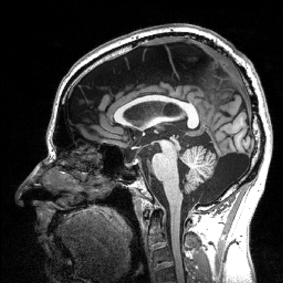 MRI image in the sagittal plane